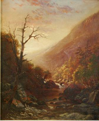 Susie Barstow (1836-1923), Kaaterskill Creek, c. 1870. Hudson River School luminist painting typical of Barstow's mature works.